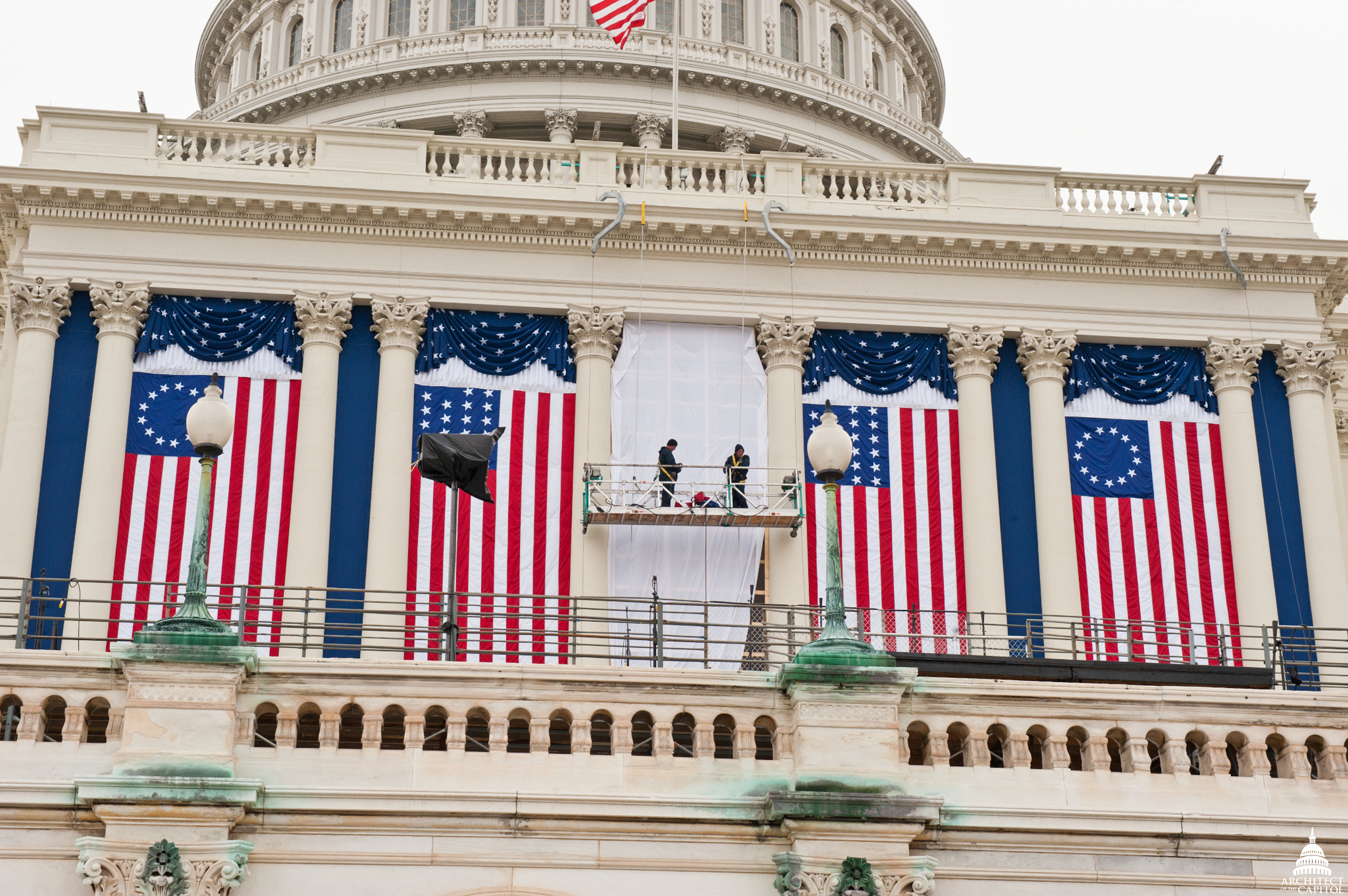 Workers hang historic US flags at the US Capitol building for the 2009 Presidential Inauguration